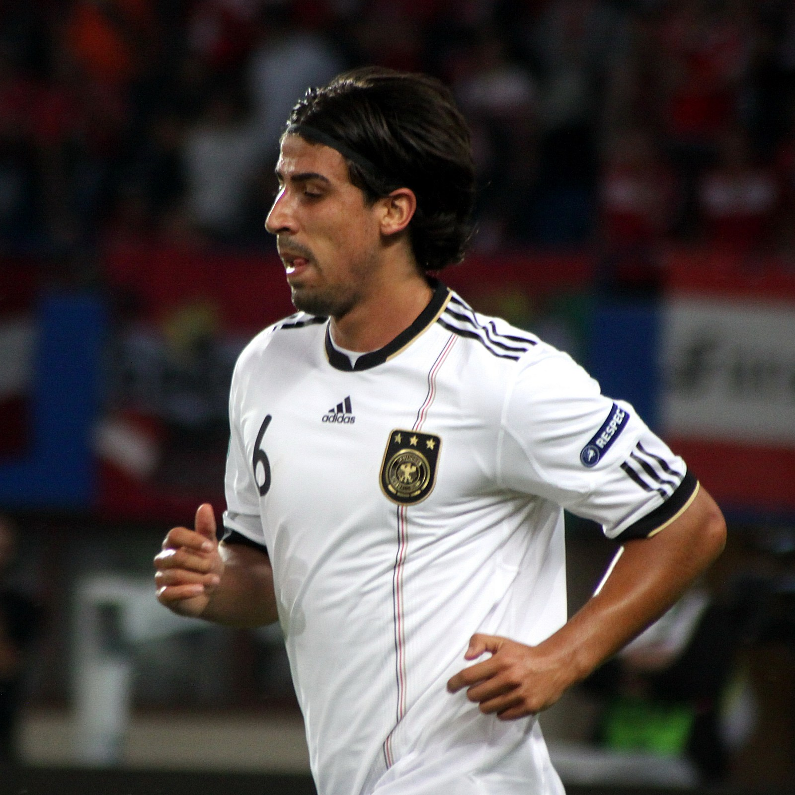 Sami Khedira (Real Madrid), german national football team